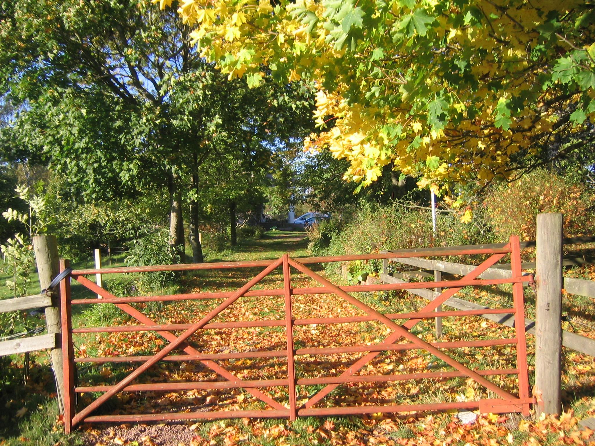 A road in the village of Ragetsbole on the Aland Islands, Finland.